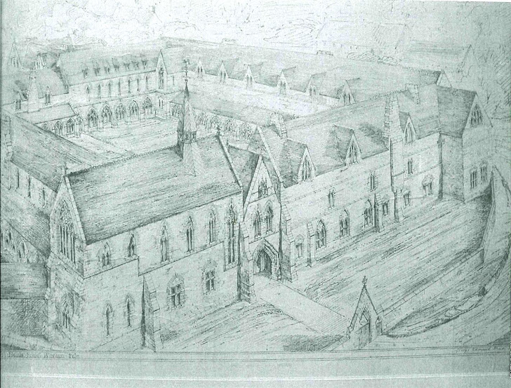 G. E. Street's architectural plans for Bloxham School, OXON.